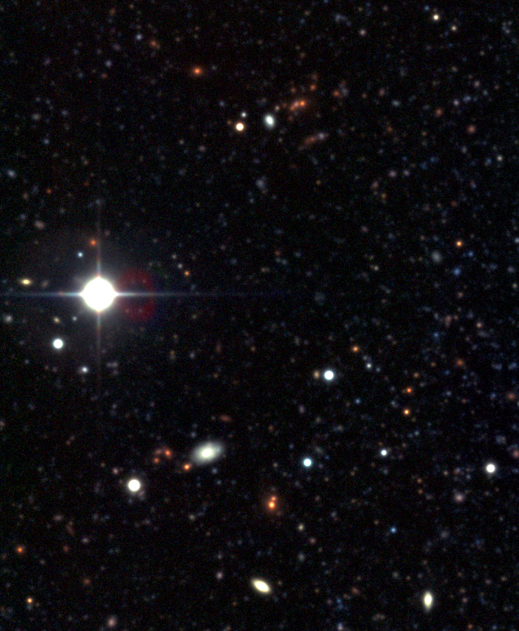 A group of galaxies seen on NGC 300 images. They are all quite red and their similar colours indicate that they must be about equally distant. They probably constitute a distant cluster, now in the stage of formation.